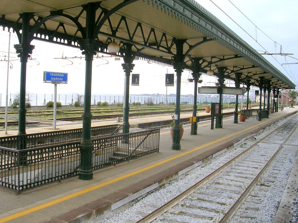 Train station in Taormina, Sicily, Italy.